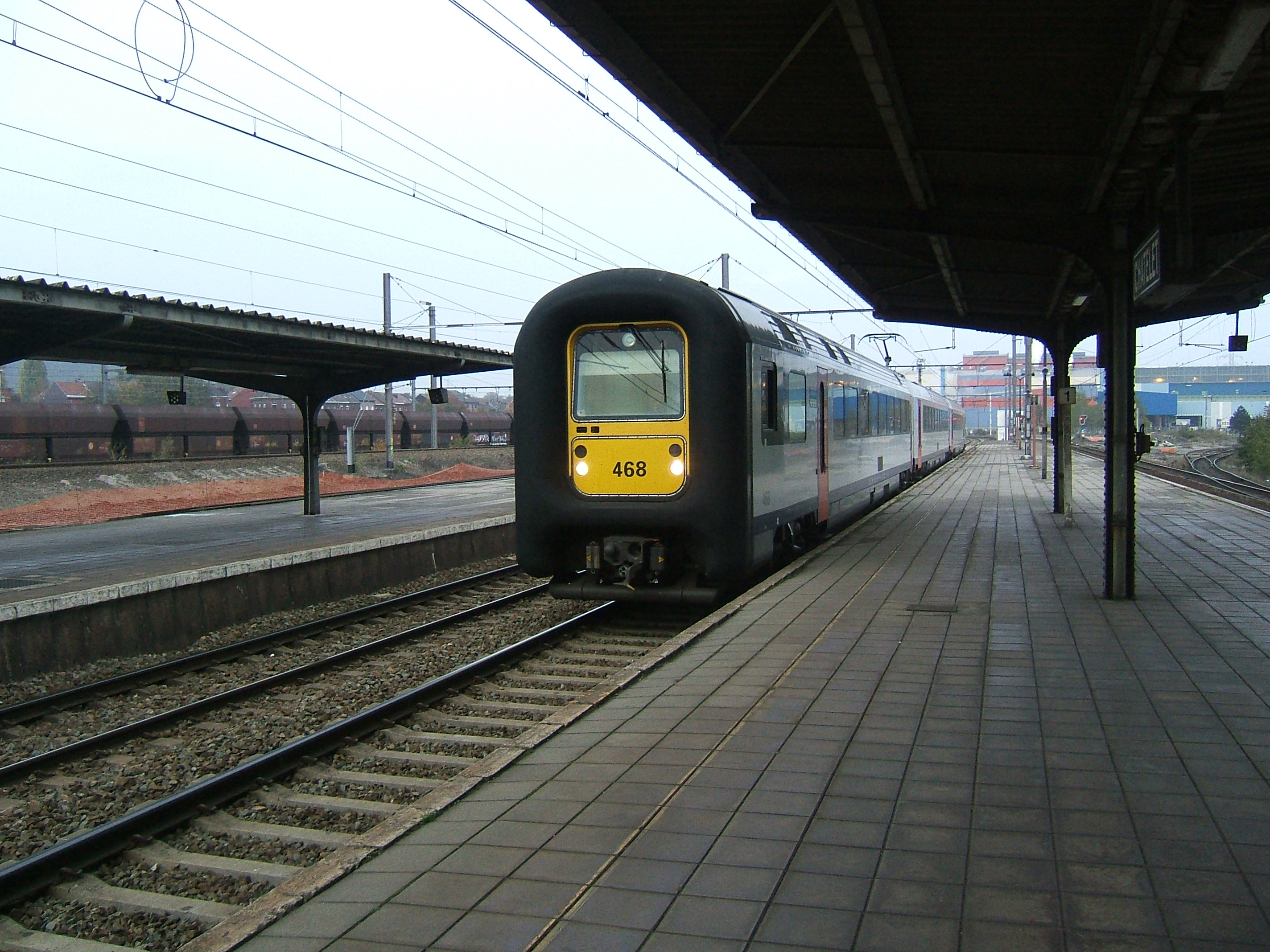 Danish Nose at Châtelet Station